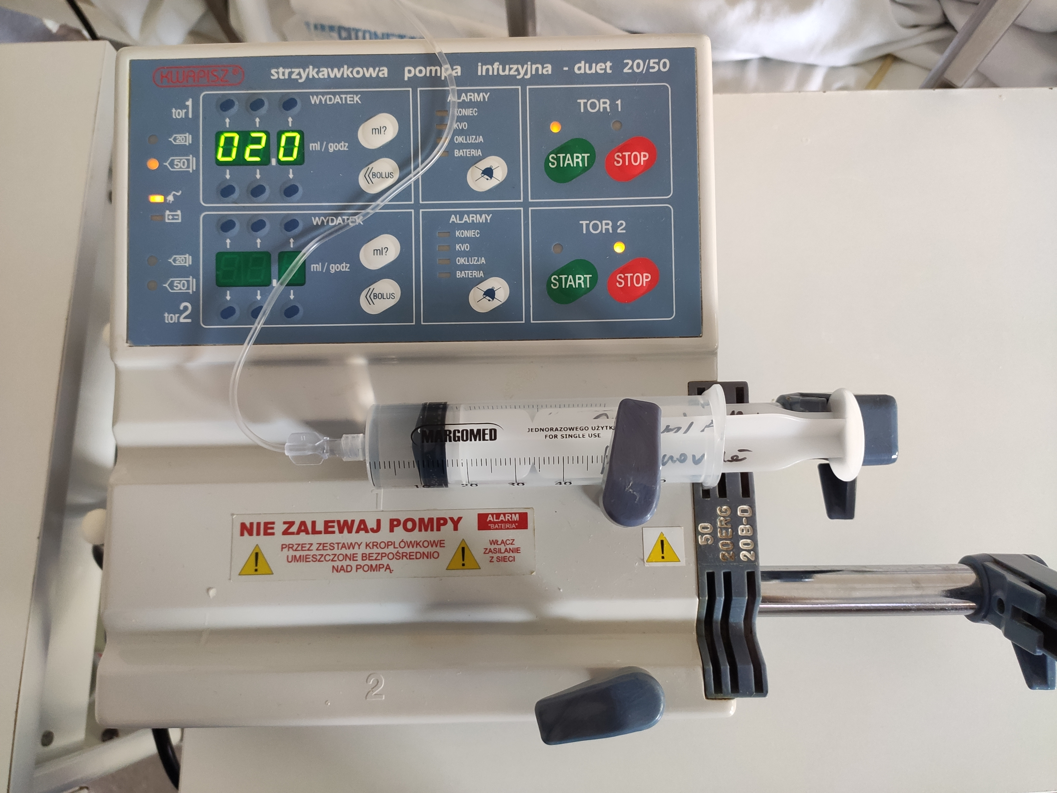 Infusion Pump made by Kwapisz Company